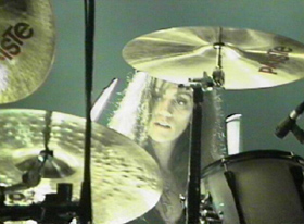 I am the owner of this photo of Linda McDonald that I took. I am also the manager/agent of The Iron Maidens and Phantom Blue.